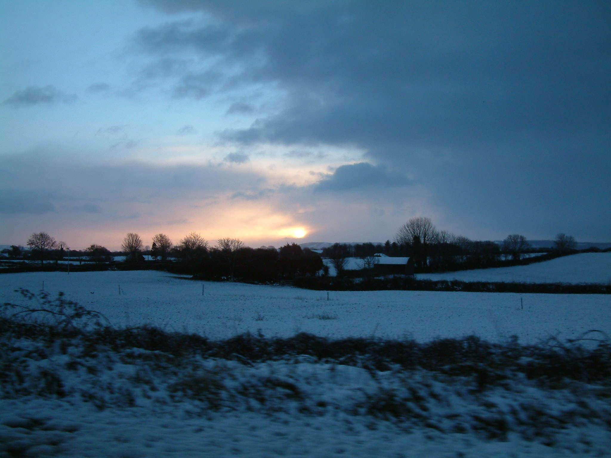 Headed to work south of Grangemocklar, County Tipperary, Ireland after the snow storm of January 2005.